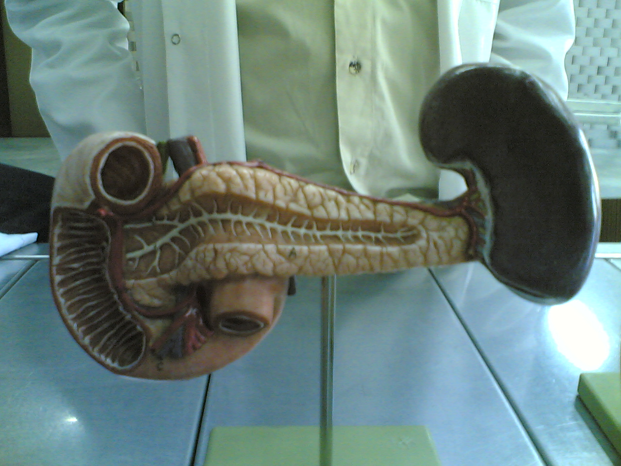 Pancreas and related structures model. Showing the (on the anterios side) duodenum, duct of Wirsung and the spleen